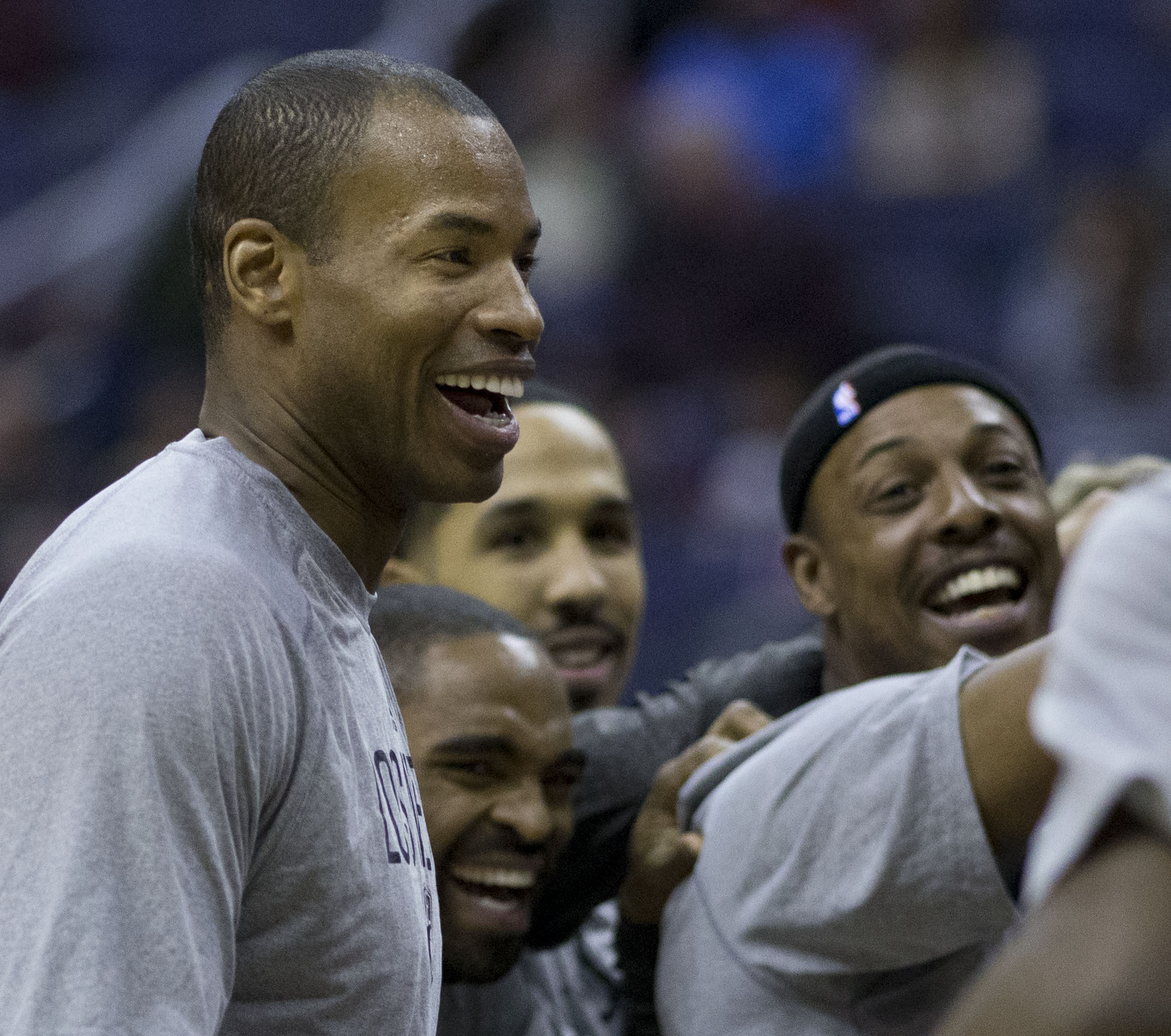 Brooklyn Nets at Washington Wizards 3/15/14. Verizon Center, Washington, DC.